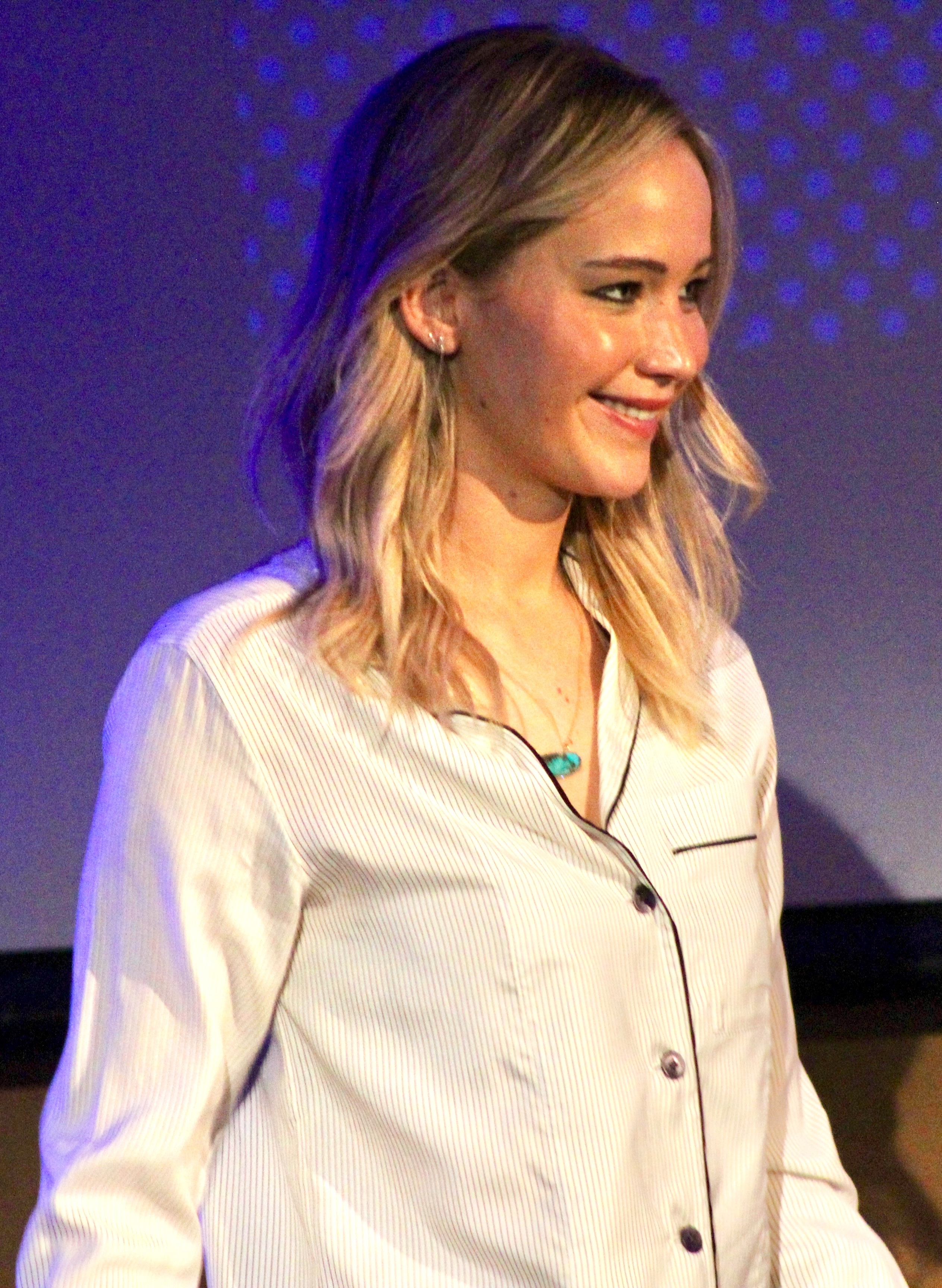 Jennifer Lawrence at the Unrig the System Summit at Tulane University in New Orleans, LA.